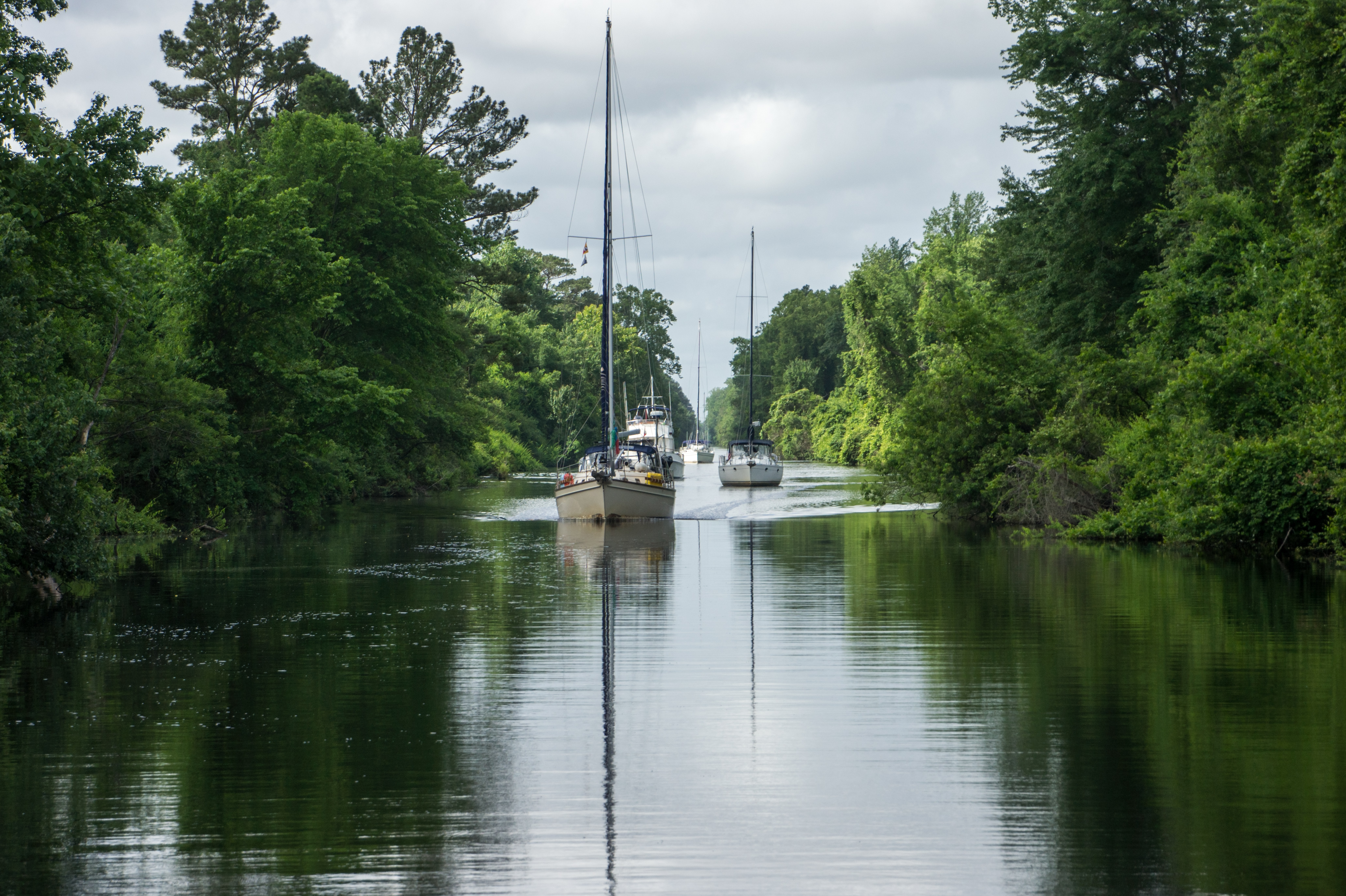 This is part of the Intracoasta Waterway